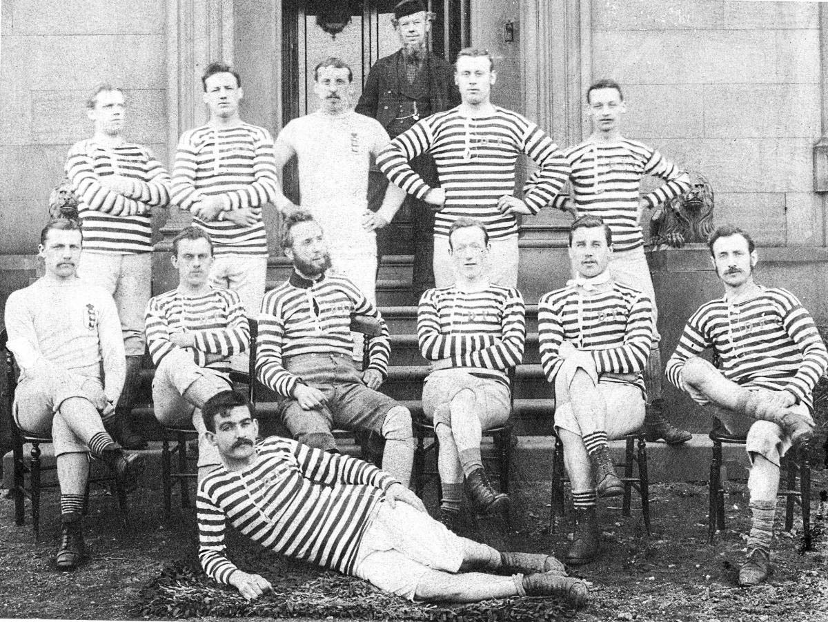 Team of Darwen FC, a working class club that lead the road to professionalism in English football.